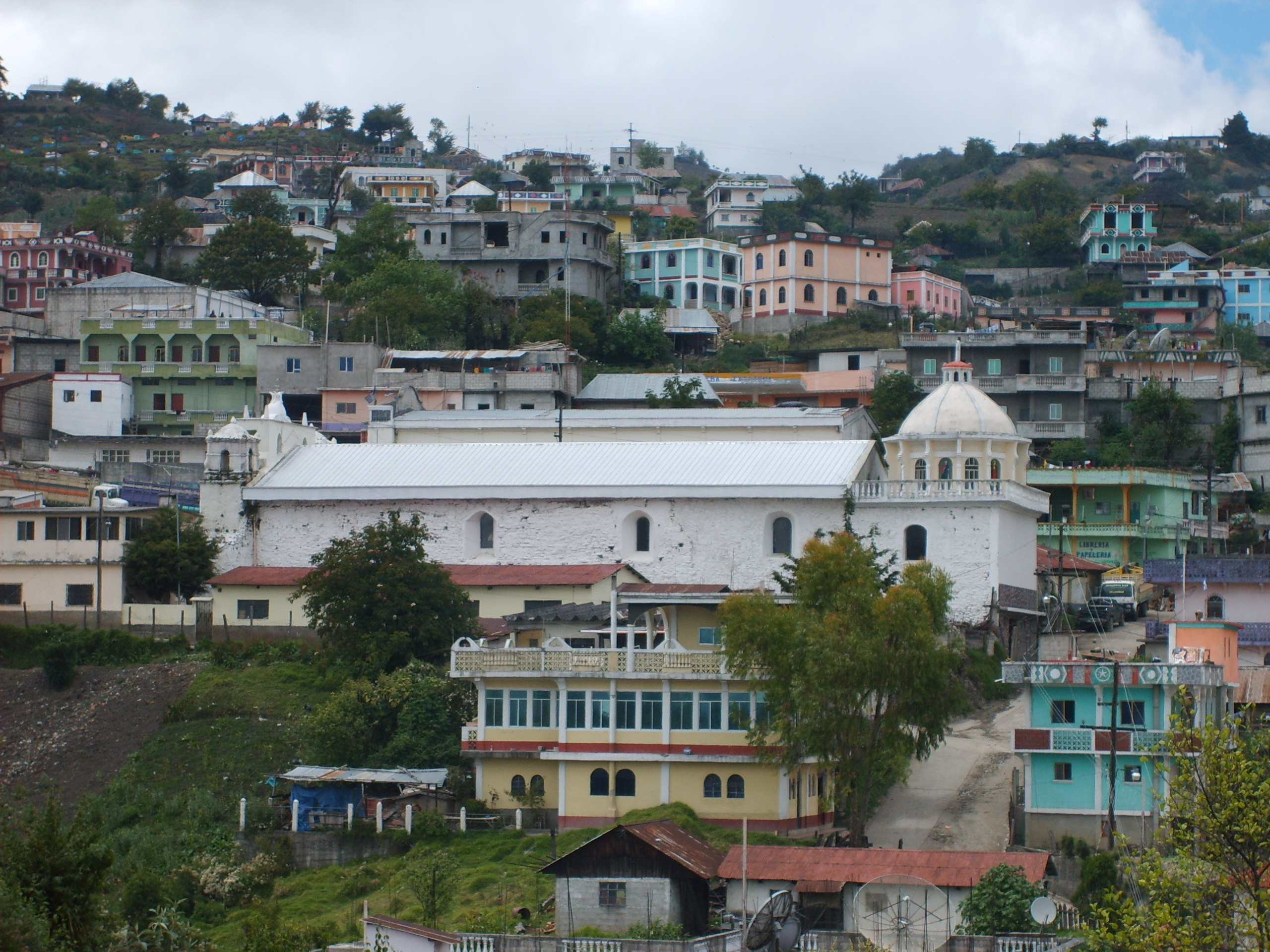 The Catholic church in San Mateo Ixtatán, Huehuetenango department, Guatemala.